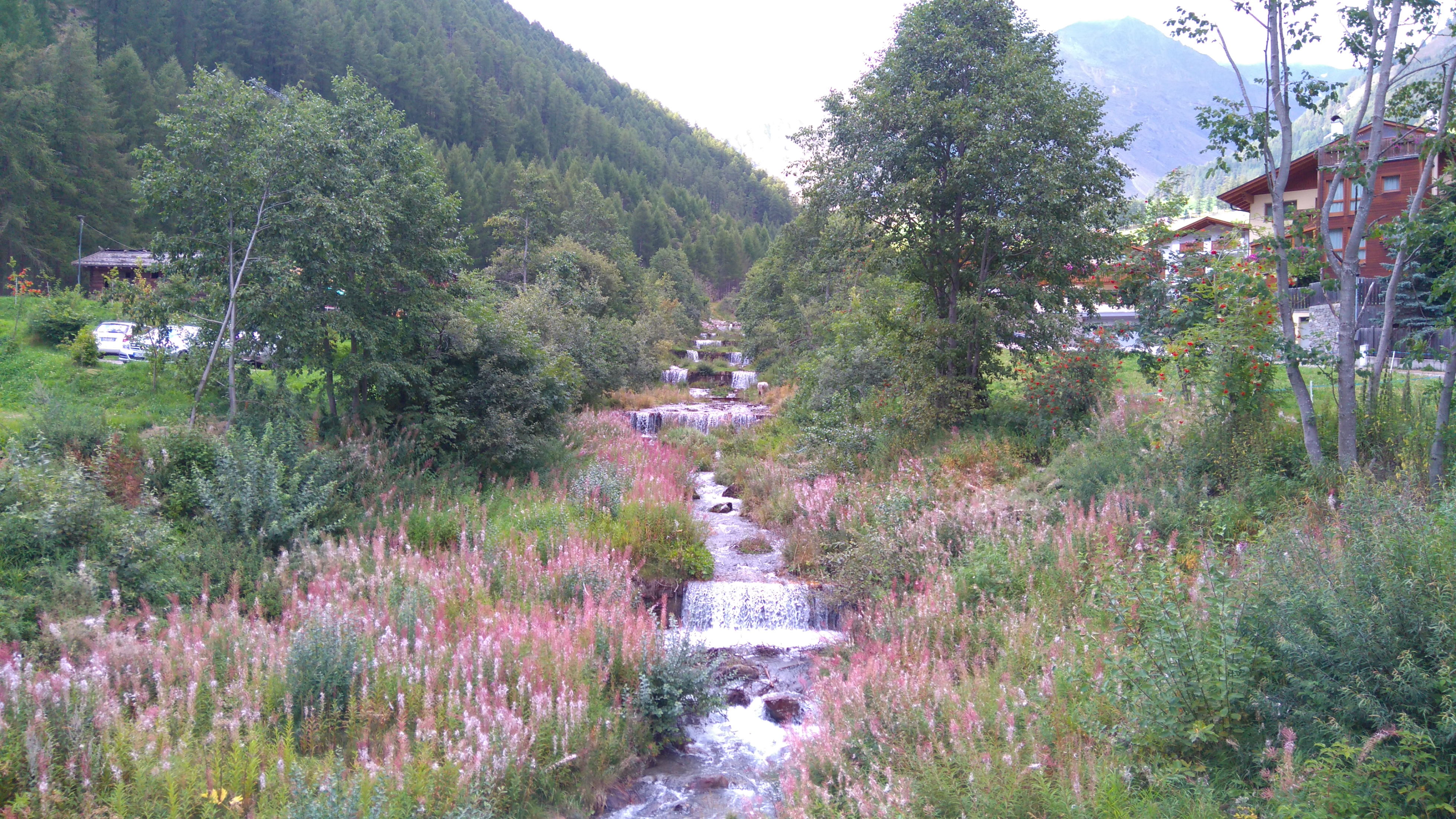 Rio Senales in Village Madonna di Senales